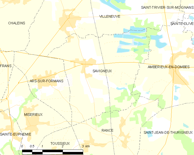 Map of French commune: Savigneux Map commune FR insee code 01398.png